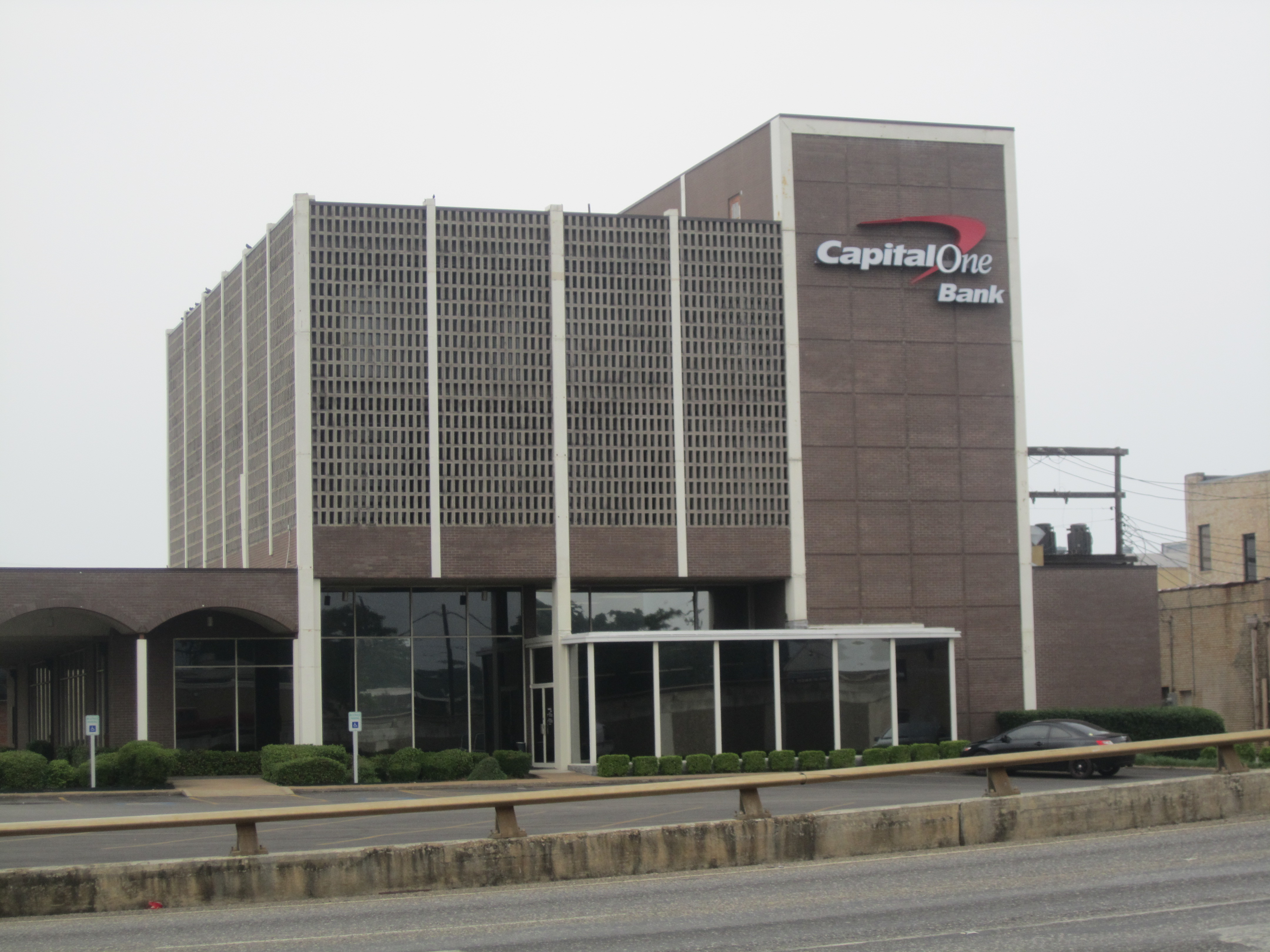 I took photo with Canon camera in Jacksonville, TX.